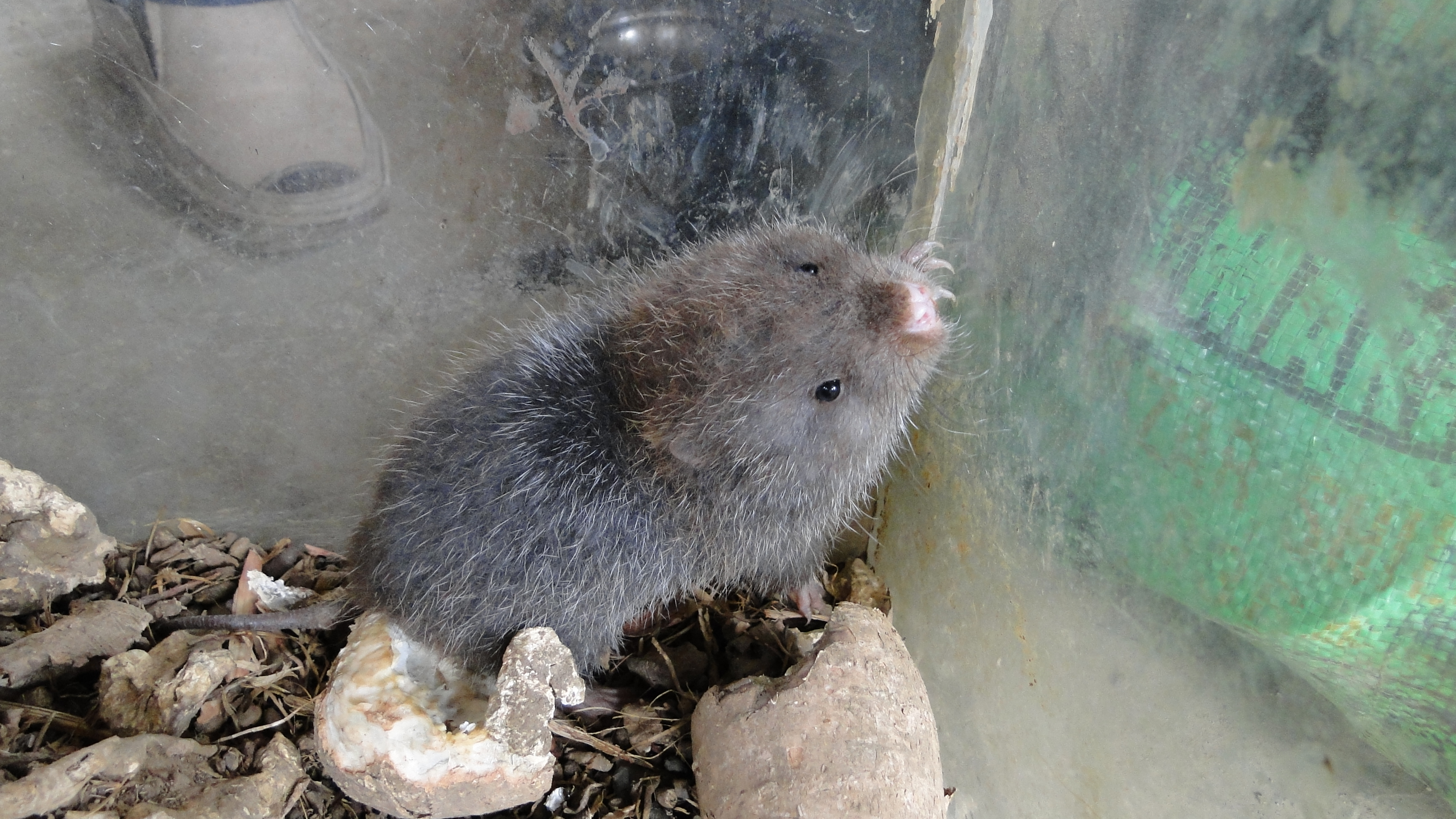 This is a Rhizomys (Bamboo Rat) from Nagaland, India